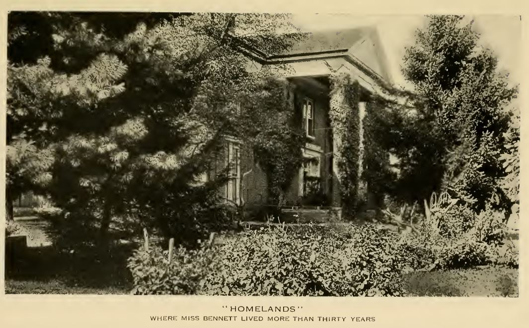 Photograph of "Homelands" in Madison County, Kentucky - taken from an illustration found after page 32 of the 1928 biography by Mrs. R.W. MacDonell of suffragist and Southern Methodist missionary leader Belle Harris Bennett. Built originally in 1812, Samuel Bennett (1805-1888) and his wife Elizabeth Chenault Bennett (1815-1897) added a large Greek Revival extension and named the house Homelands. They had eight children: of these, James (1839-1908) married suffragist Sarah Lewis Clay (1841-1935), John (1837-1903) was a state senator, Susan Ann (1843-1891) was a noted church worker for whom Sue Bennett Memorial College in London, Kentucky, is named. The younger daughter, Belle H. Harris (1852-1922), was known internationally for her work in the Methodist Episcopal Church, South and as a woman's rights activist.